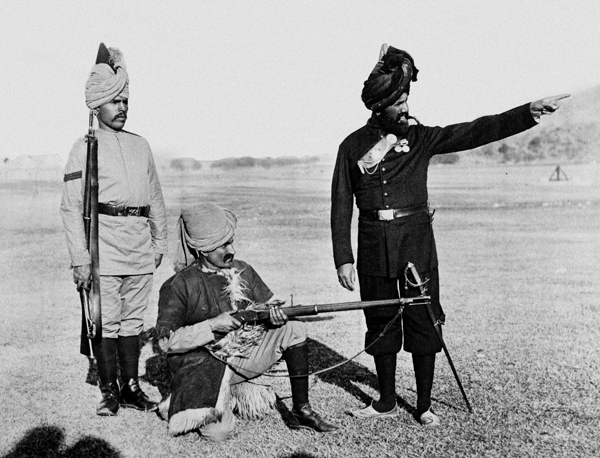 1st Regiment of Punjab Infantry, Punjab Frontier Force (now 7 Frontier Force, Pakistan Army), 1889.